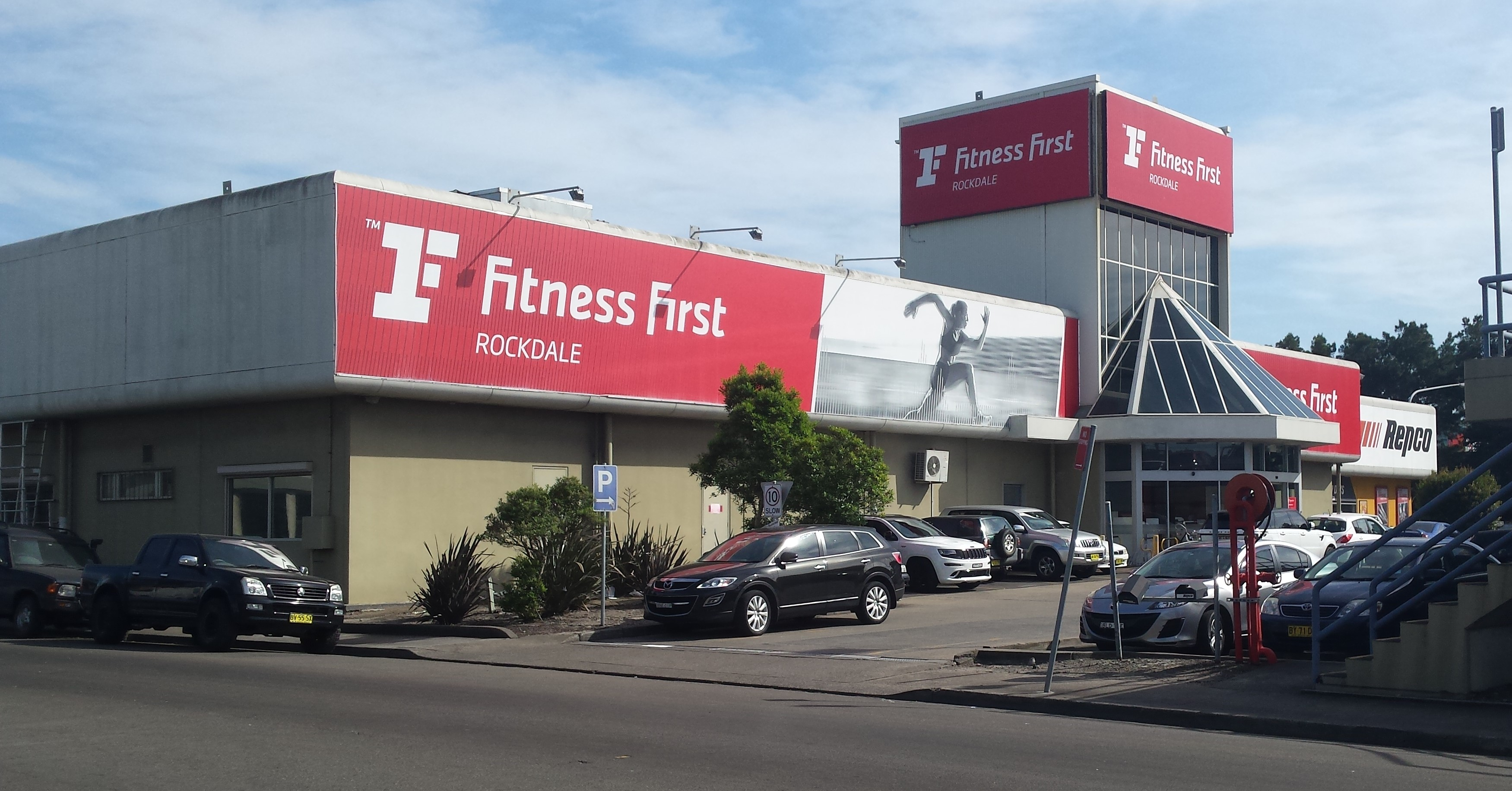 A Fitness First gym in the Sydney, Australia suburb of Rockdale, taken in 2016.